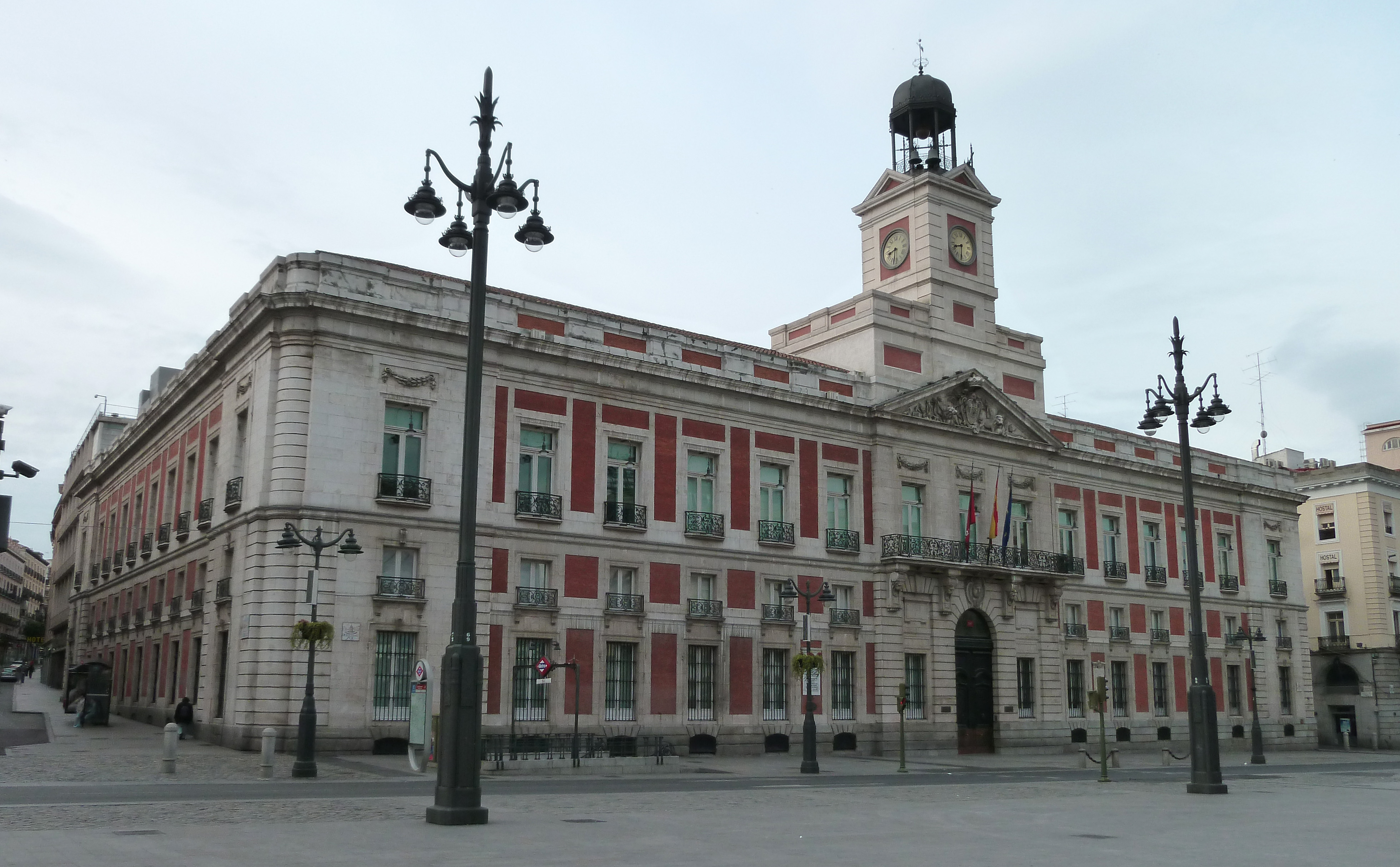 View of Real Casa de Correos in Madrid (Spain) from the north-east angle.